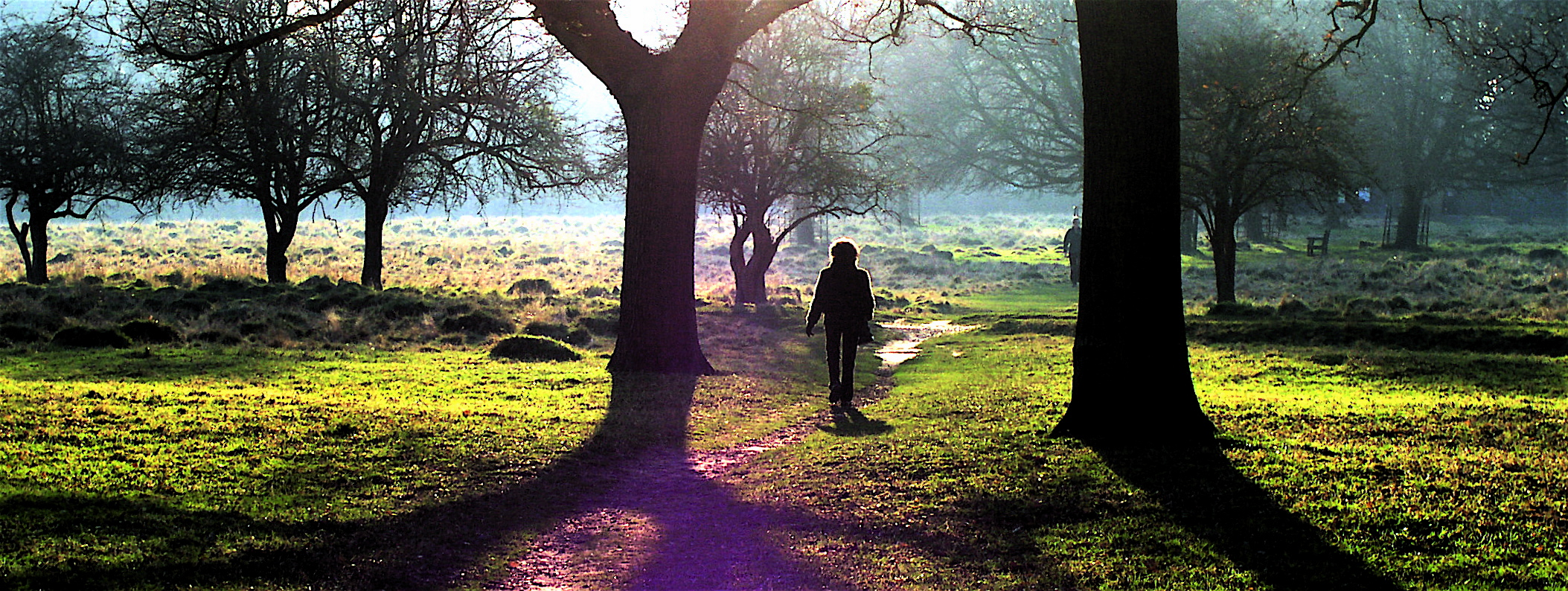 Picture of my late wife Francisca Ruiz walking in Bushy Park at 3.50pm on 12 February 2008